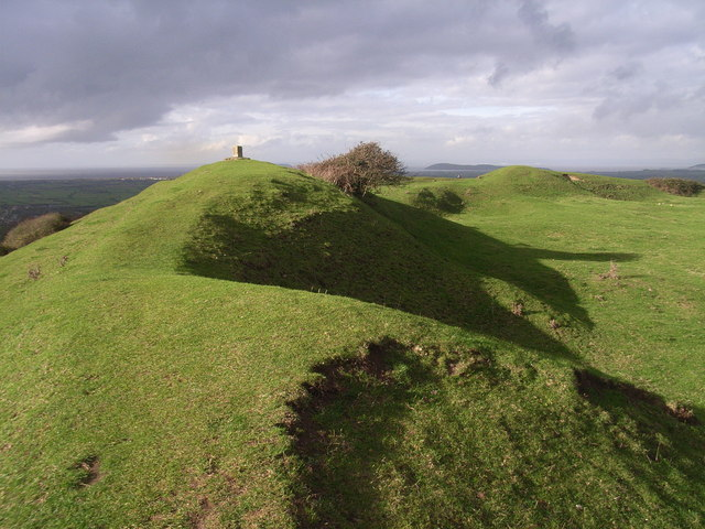 Brent Knoll hill fort Taken at the top of Brent Knoll looking toward Burnham on sea and Brean.